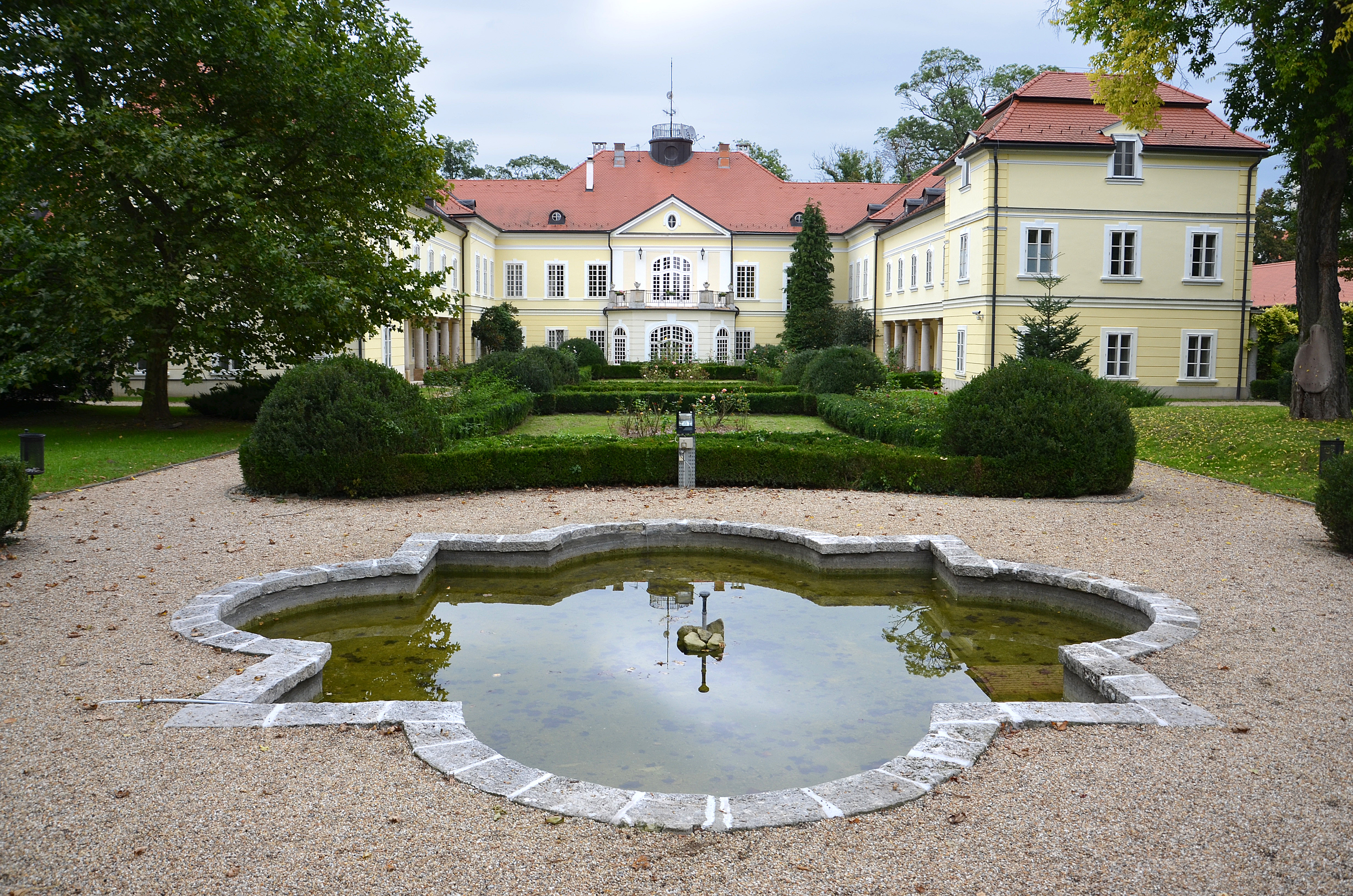 The Felsőbüki Nagy – Ürményi mansion in Röjtökmuzsaj, Hungary